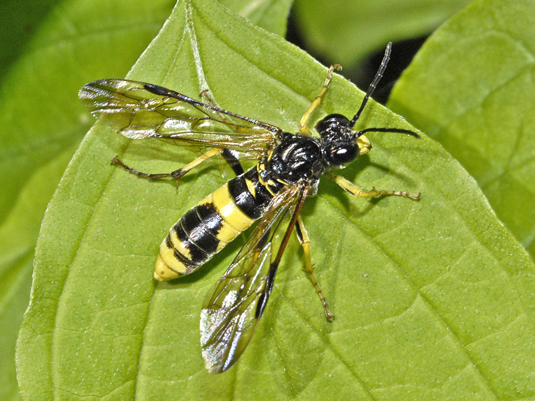 Tenthredo temula, female. Cerreto Ratti, Alessandria, Italy